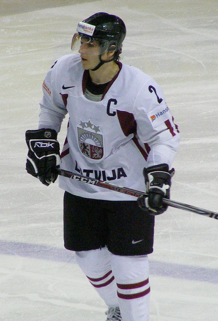 Rodrigo Laviņš /Latvia VS Slovenia (IIHF World Hockey Championship in Halifax NS, May 6 2008)/